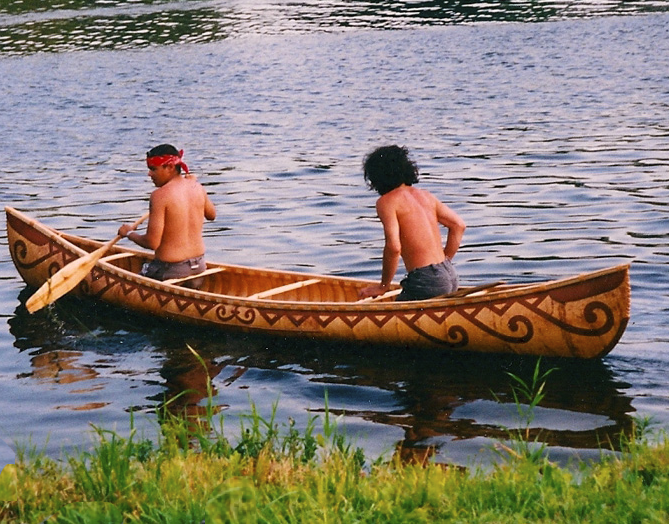 Two Peskotomuhkati men in a birch bark canoe.